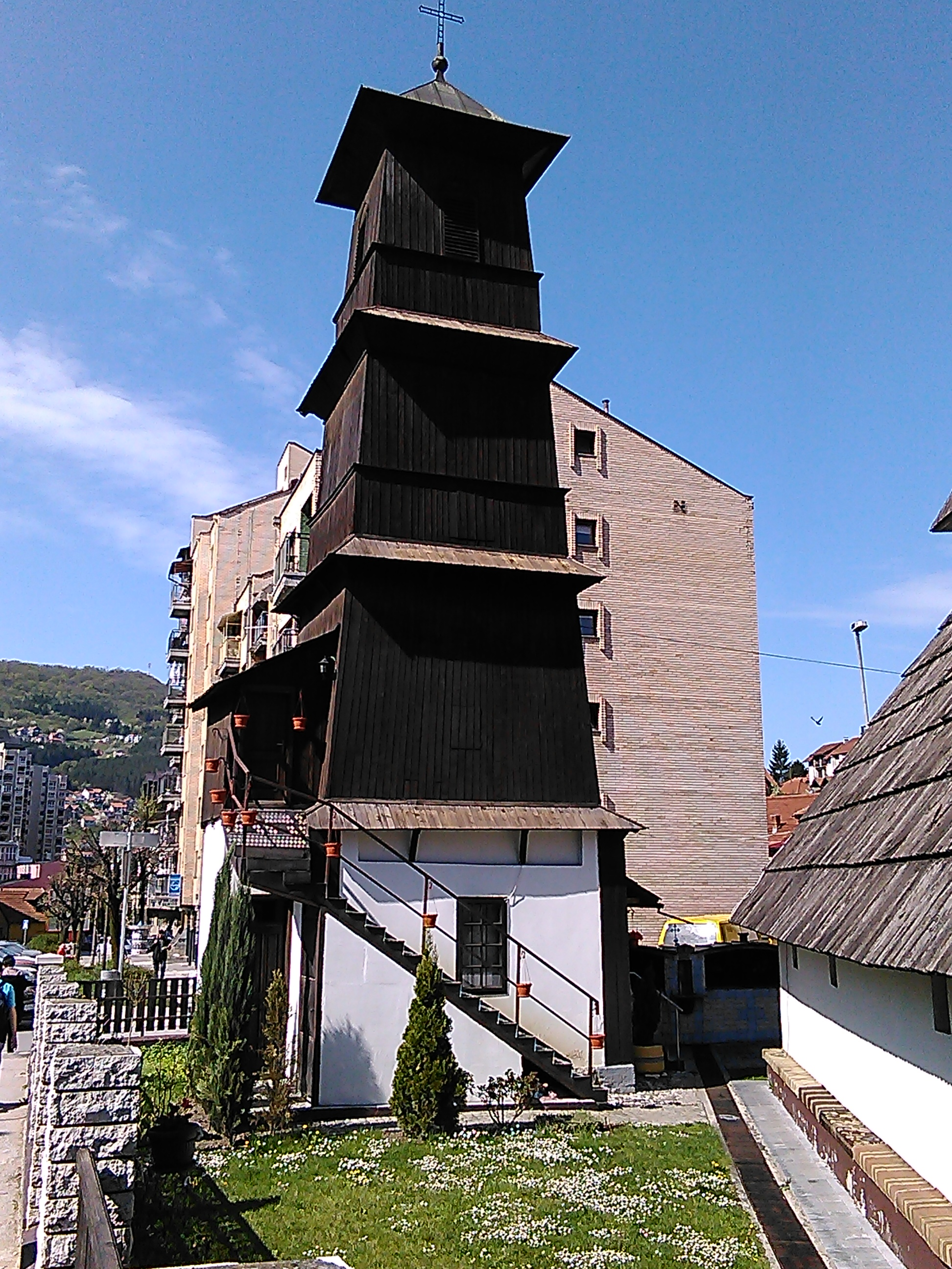 Saint Marko Church in Uzice